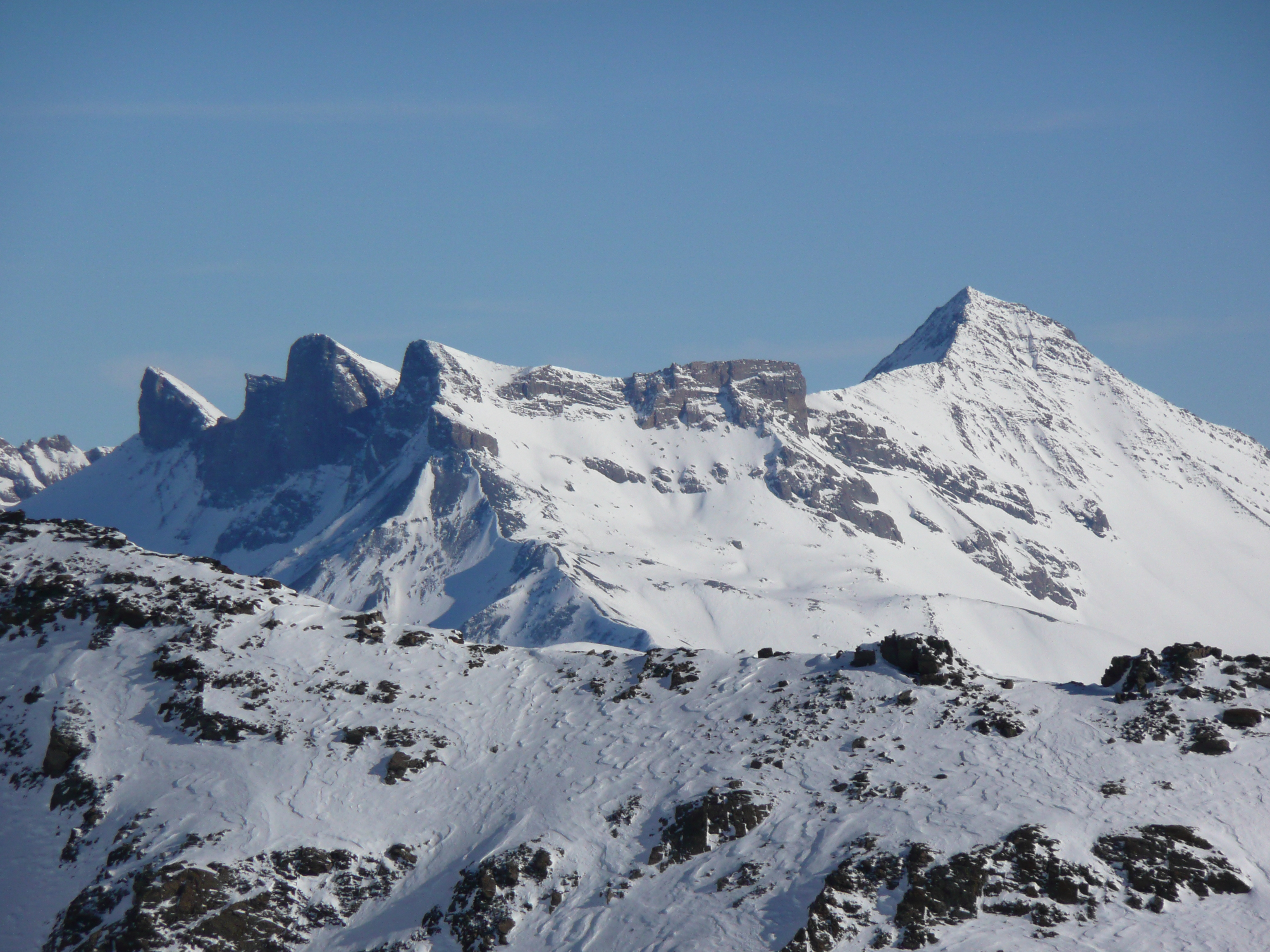 Aiguilles de la Saussaz (A. Orientale 3323m, A. Centrale 3361m, A. Occidentale 3340m), Bec de Grenier (3298m), Aiguille du Goléon (3427m) seen from Alpe d'Huez, heading sse